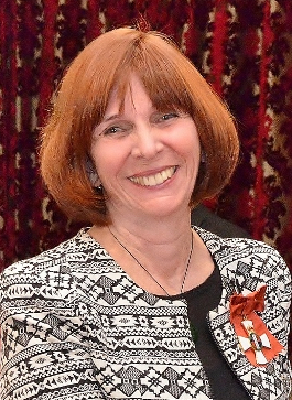 Diane Robertson, after her investiture as DNZM, for services to the community, on 8 September 2015